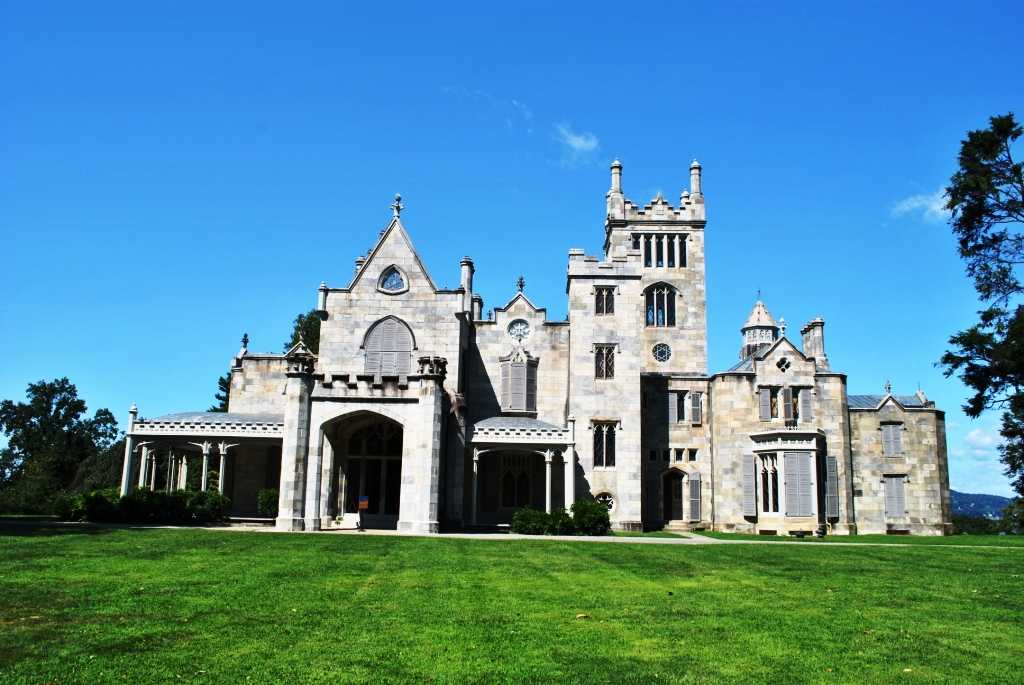 Lyndhurst (mansion)